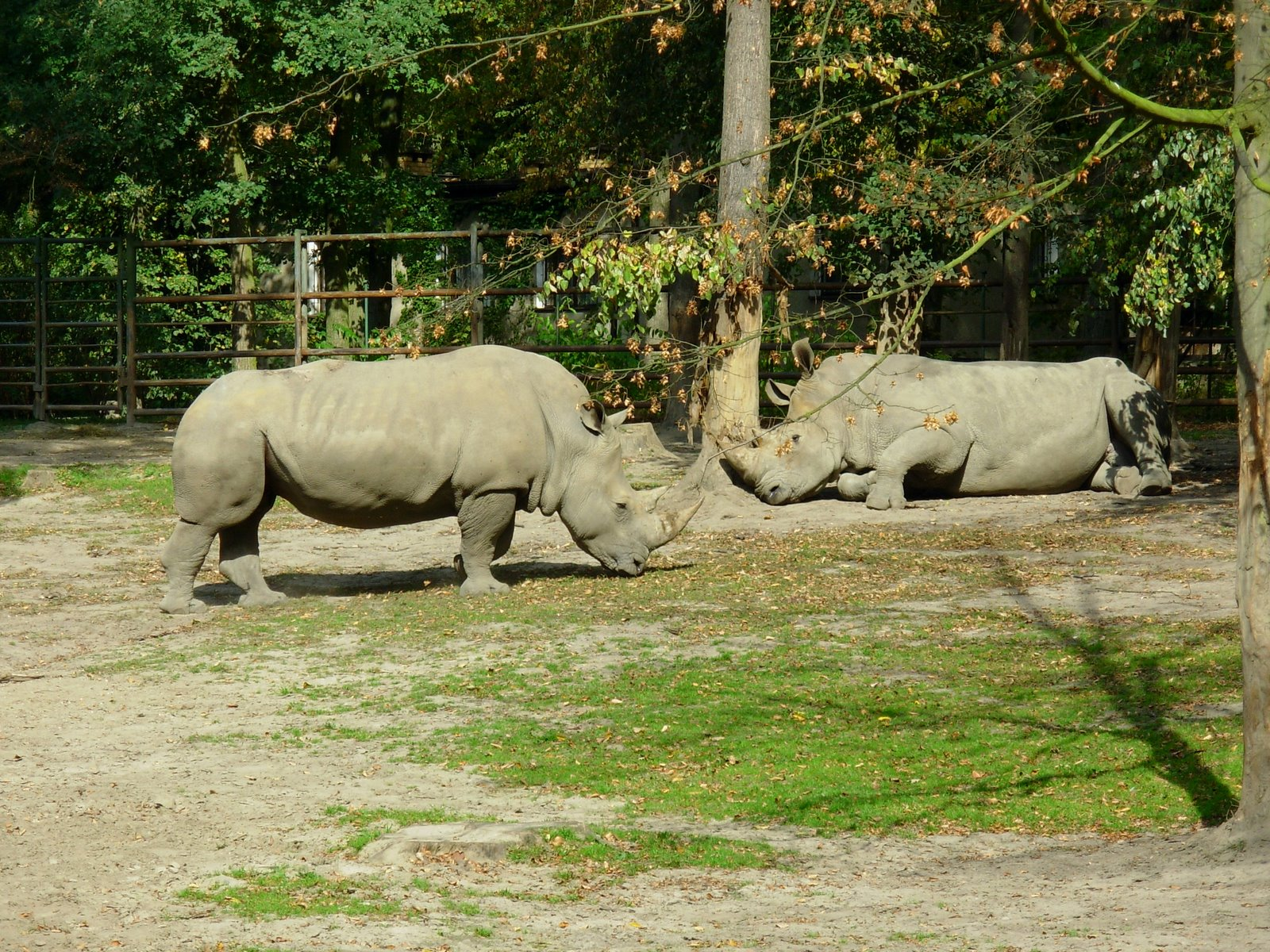 White Rhinoceros